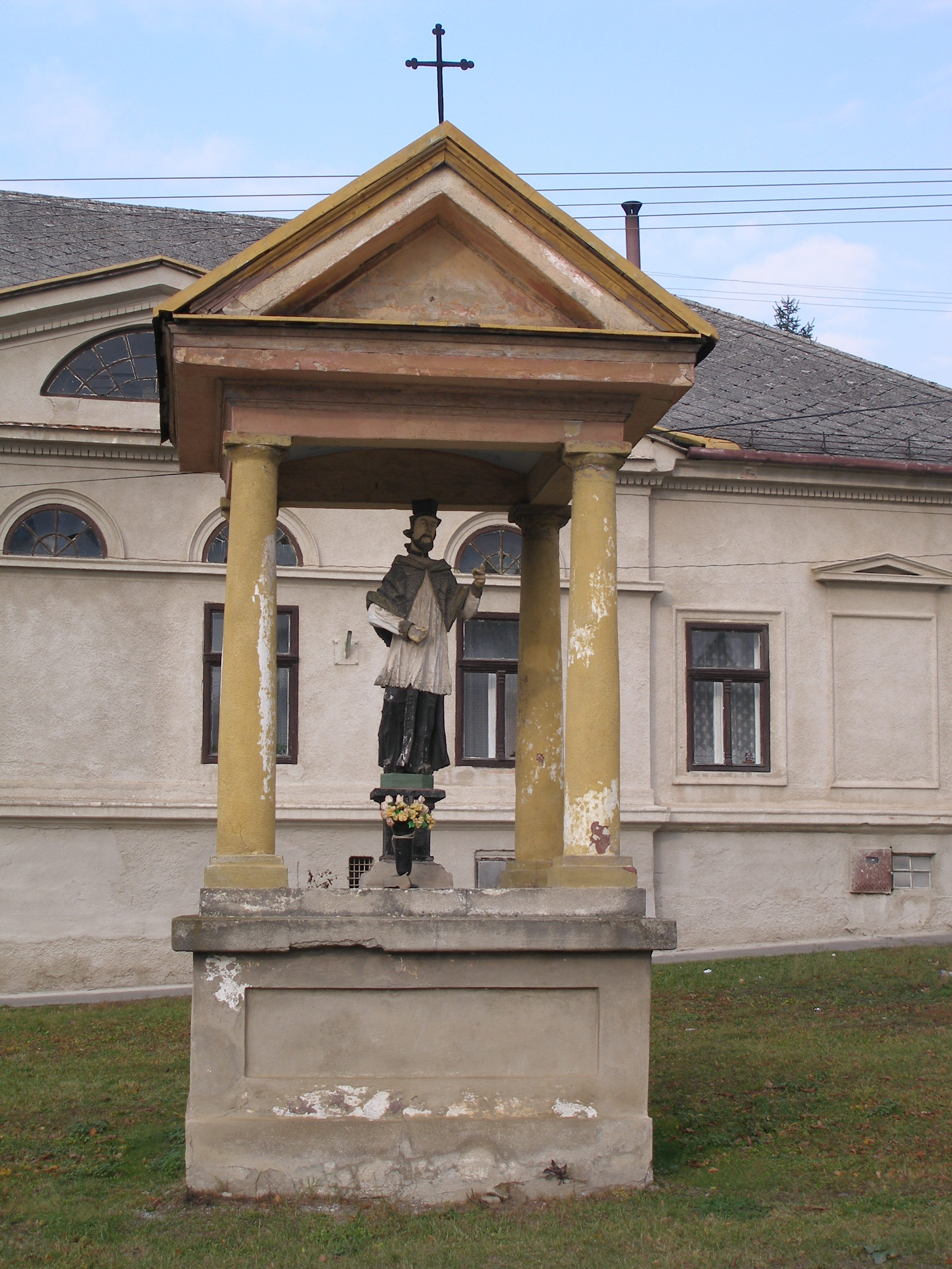 Solivar patrón miestnych obyvateľov svätý Ján Nepomucký.Mesto Prešov. This medium shows the protected monument with the number 707-369/17 in the Slovak Republic.